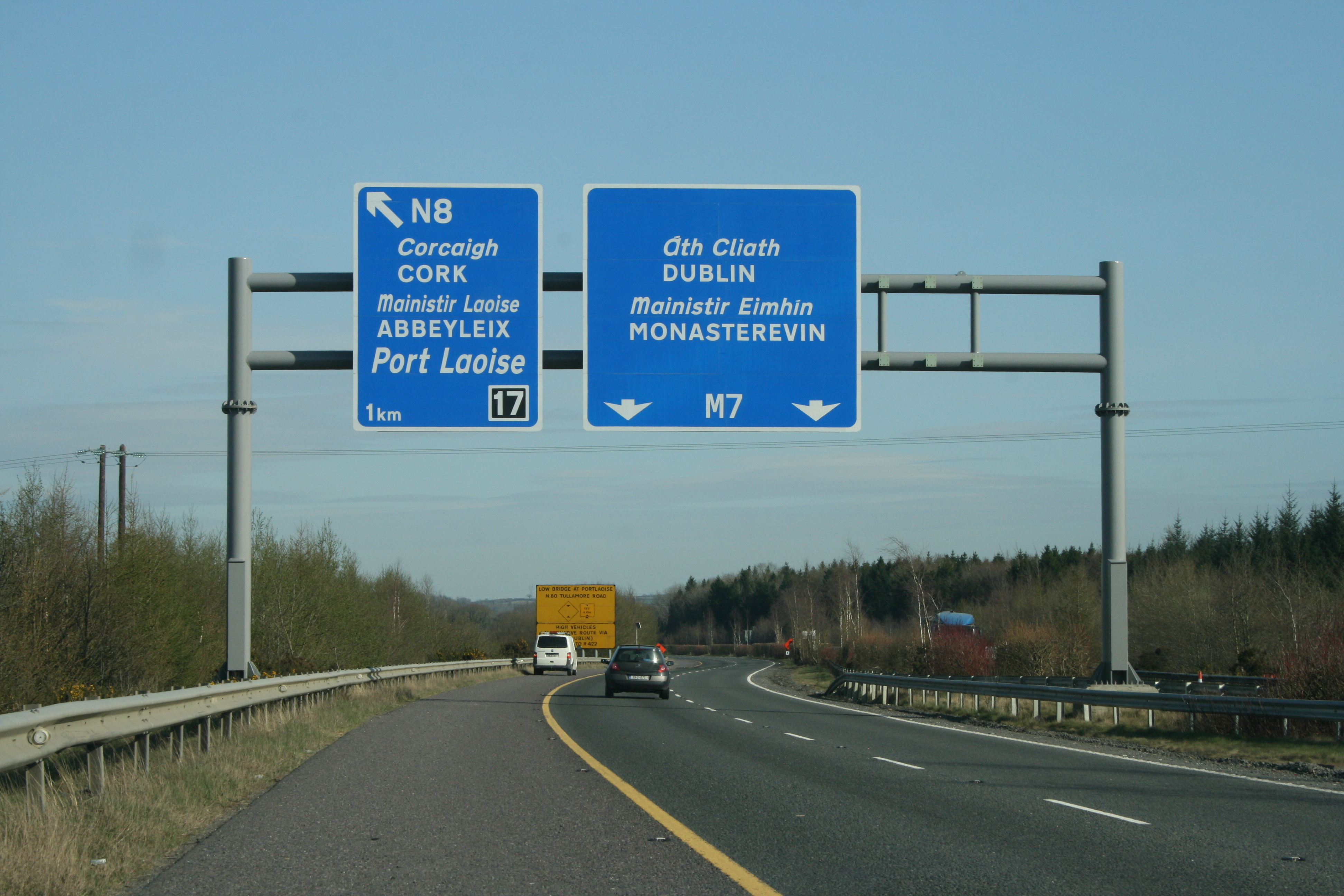 Portlaoise, County Laois M7 bypass.